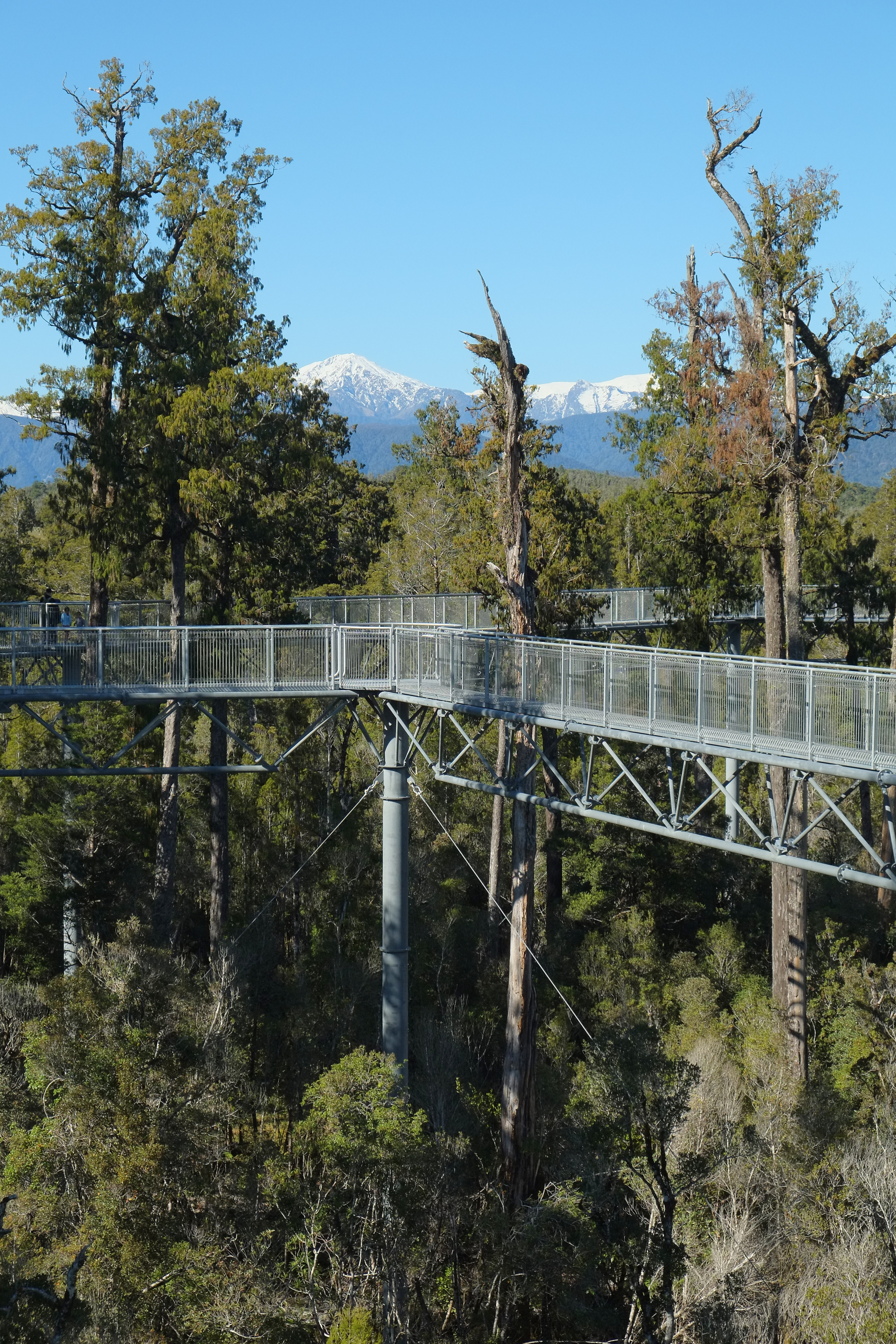 Treetop Walkway structure through forest canopy